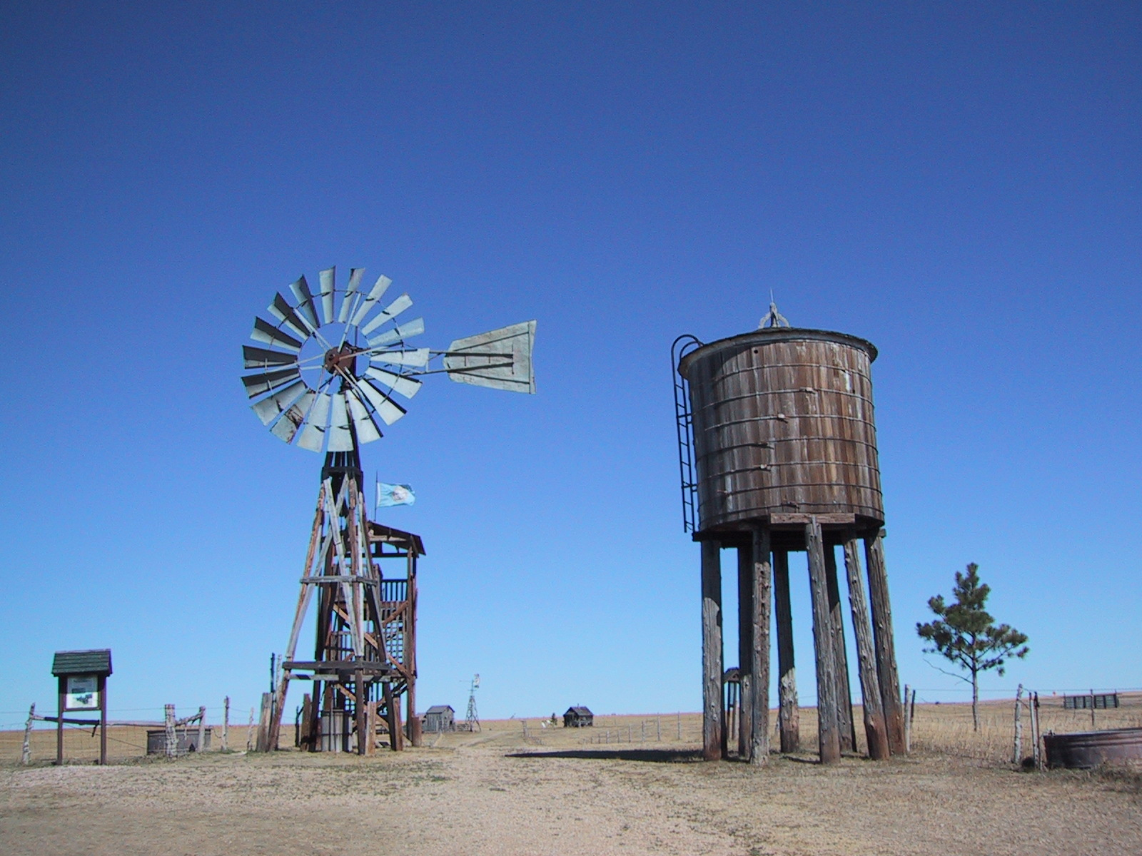 Old windmill (1880 town, South Dakota, USA).